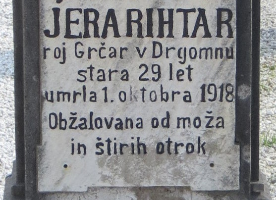 Gravestone detail in Domžale, Slovenia showing an archaic spelling of Dragomelj: "Jera Rihtar née Grčar in Drgomen [Dragomelj], age 29, died October 1, 1918. Mourned by her husband and four children."